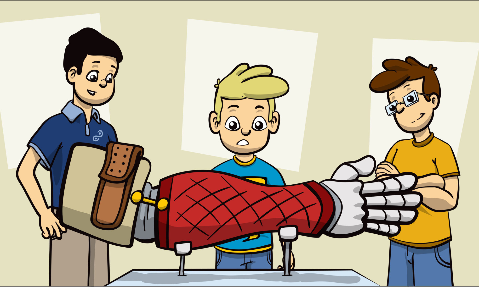 This was an original comic book written by one of Limbitless' Bionic Kids, and then brought to life by students and faculity from the The University of Central Florida's School of Visual Arts & Design.